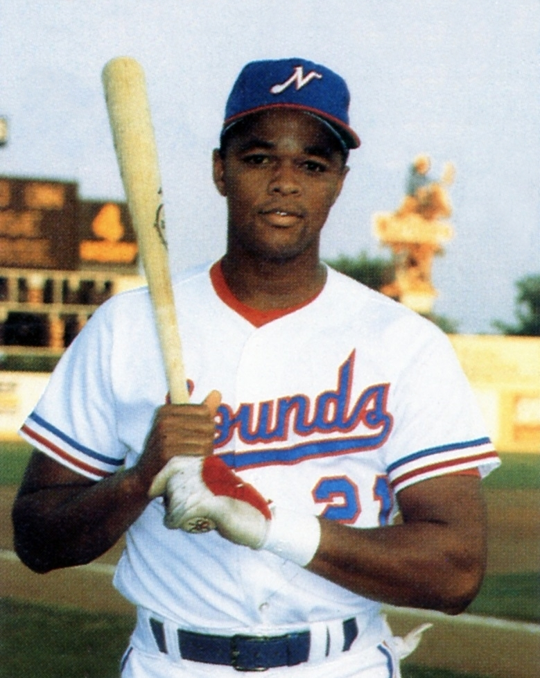 Catcher Terry McGriff of the 1988 Nashville Sounds Minor League Baseball team of the American Association